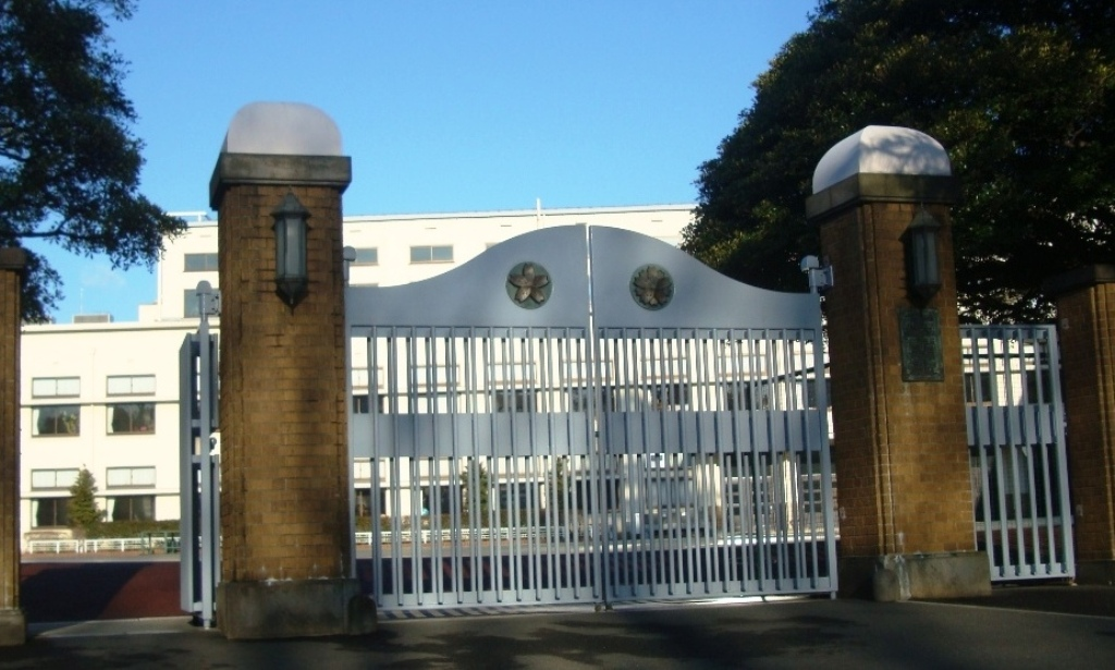 Gakushuin Primary School, Yotsuya, Tokyo